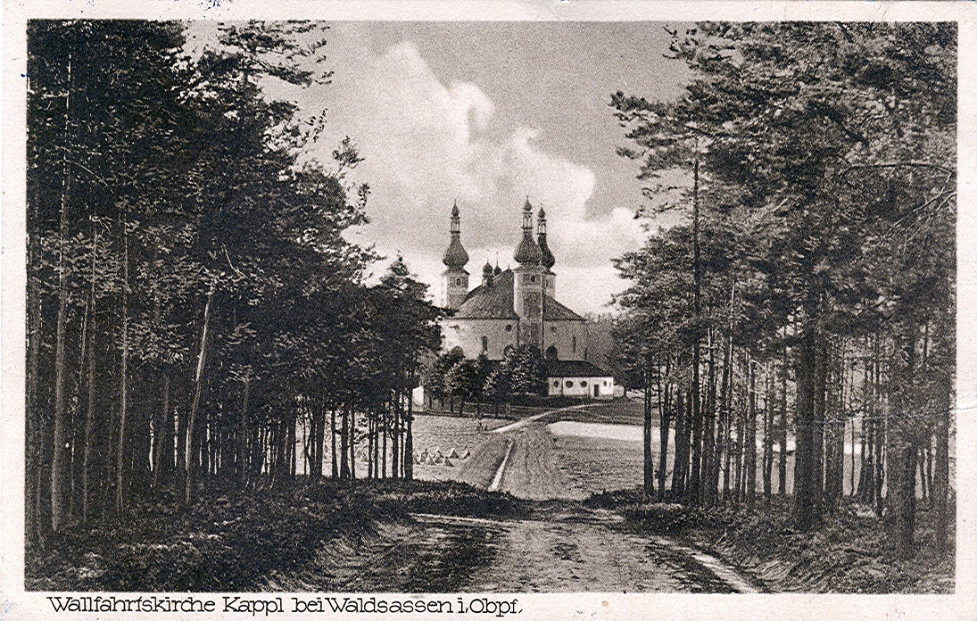 Postcard, undated ( ca. 1920 ). Title: "Pilgrimage church Kappl near Waldsassen ( Upper Palatinate )."